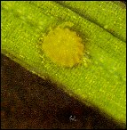 PD-USGov-USDA-FS Larch Casebearer in Western Larch